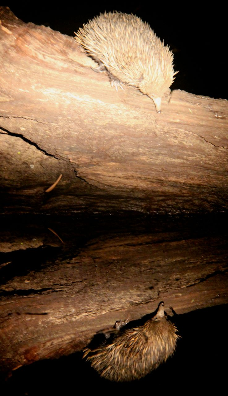 Echidna at The Charcoal Tank Nature Reserve